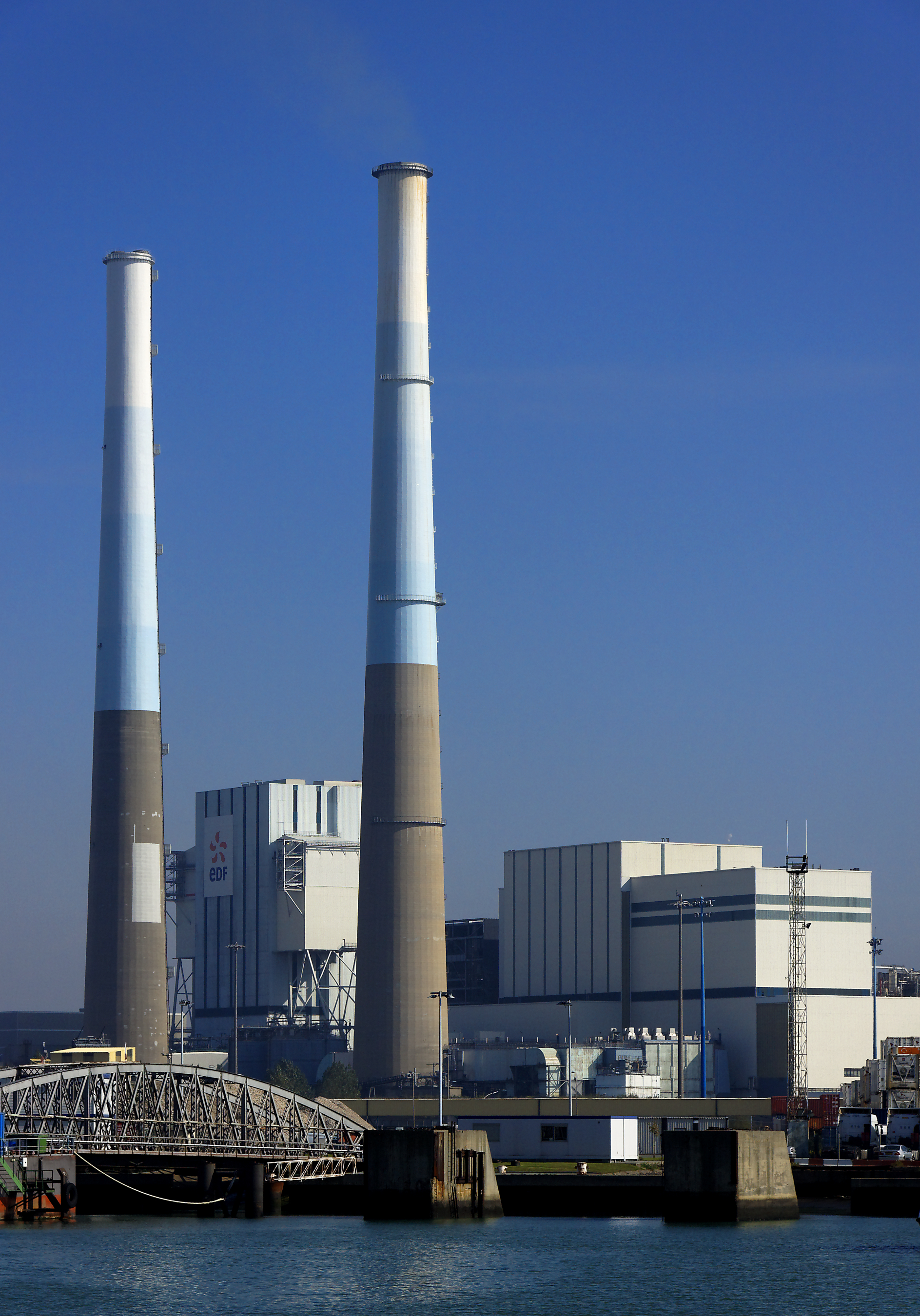 Coal plant of Le Havre, Normandy, France.